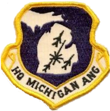 Michigan Air National Guard - Emblem